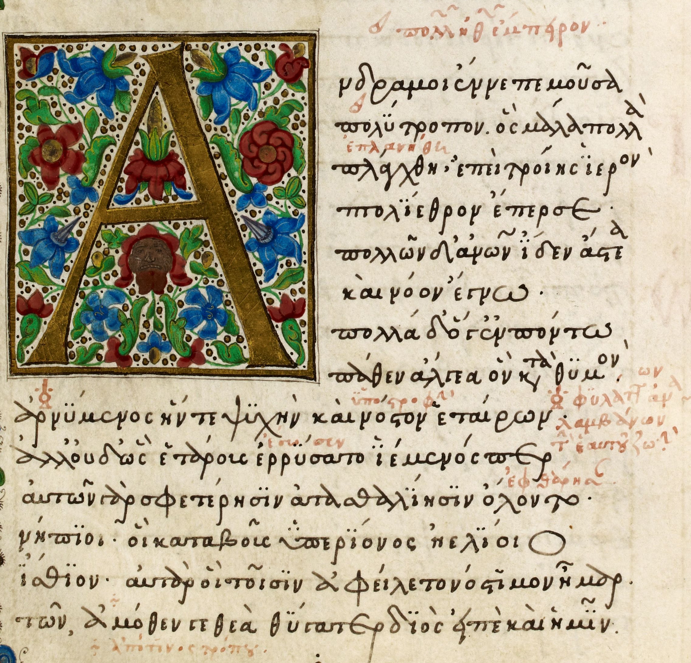 Homer, Odyssey manuscript. Date: 3rd quarter of the 15th century